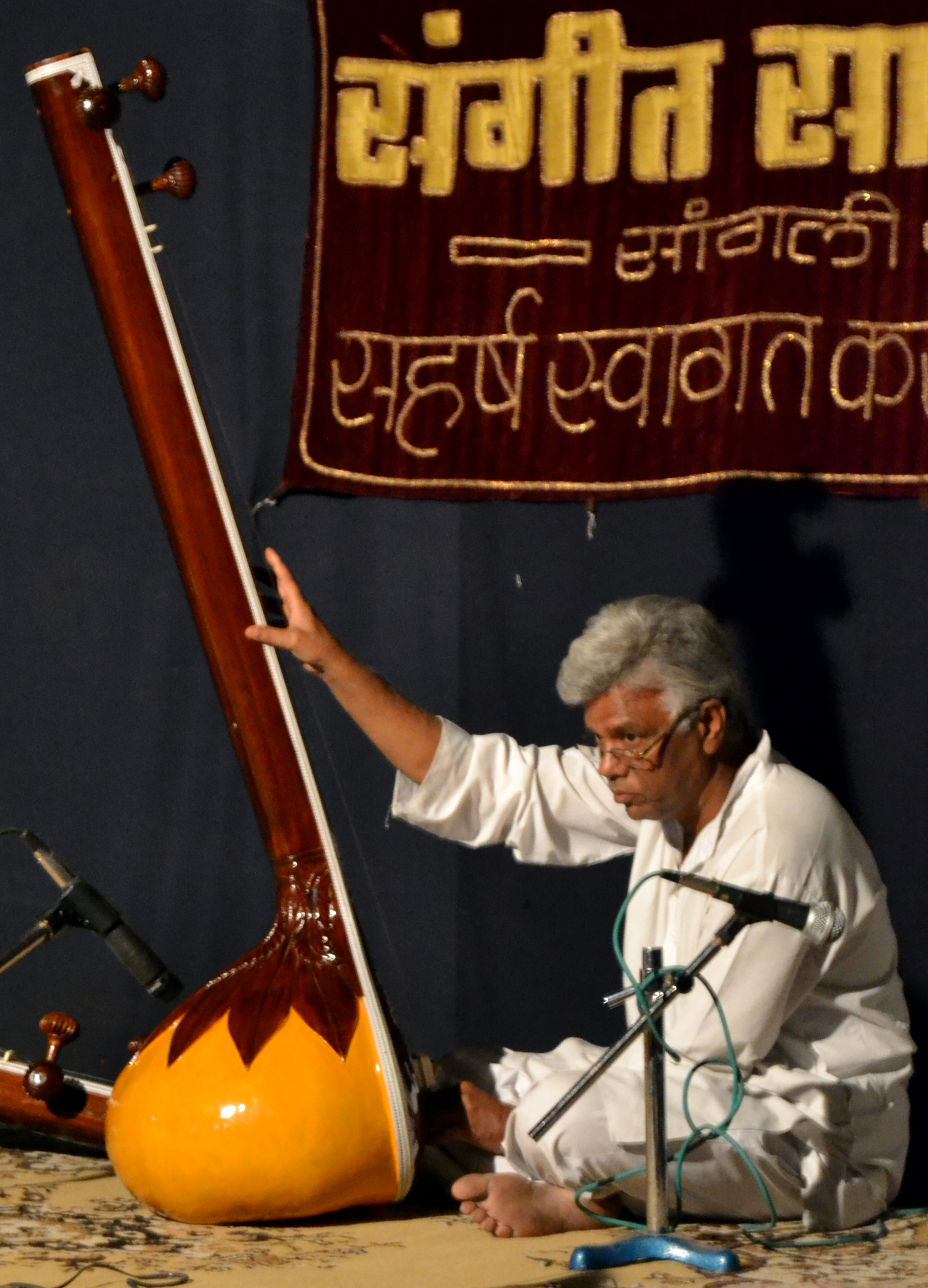 Vocalist Sandeep Ranade performs Hindustani Classical music accompanied by Milind Kulkarni on harmonium and Nilesh Randive on tabla at Bhave Natya Mandir, Sangli in December 2012.